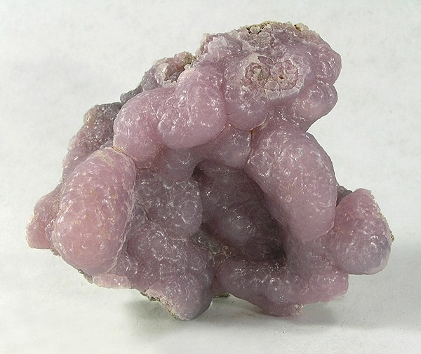 Smithsonite Locality: Choix, Municipio de Choix, Sinaloa, Mexico (Locality at ) Size: 6.8 x 5.8 x 3.3 cm. This is a fine pink botryoidal smithsonite from the original smithsonite finds at Choix, not the ones of the past few years. It is accompanied by an old Gary Hansen label. As you can see, it has wonderful color, but most of all, a great shimmering luster. Henry Minot specimen.